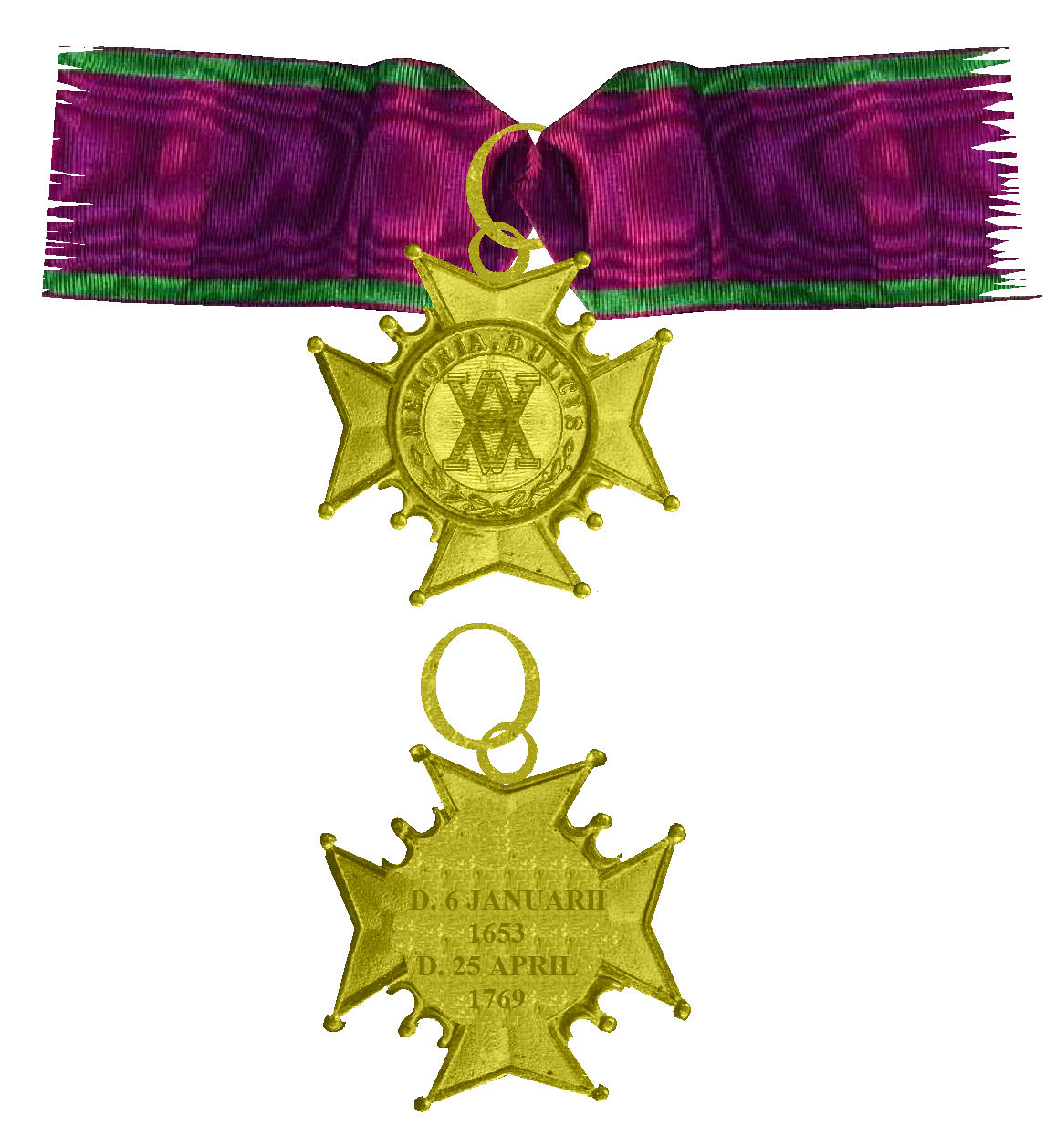 Amarantorden Order of the Amarant (Sweden)